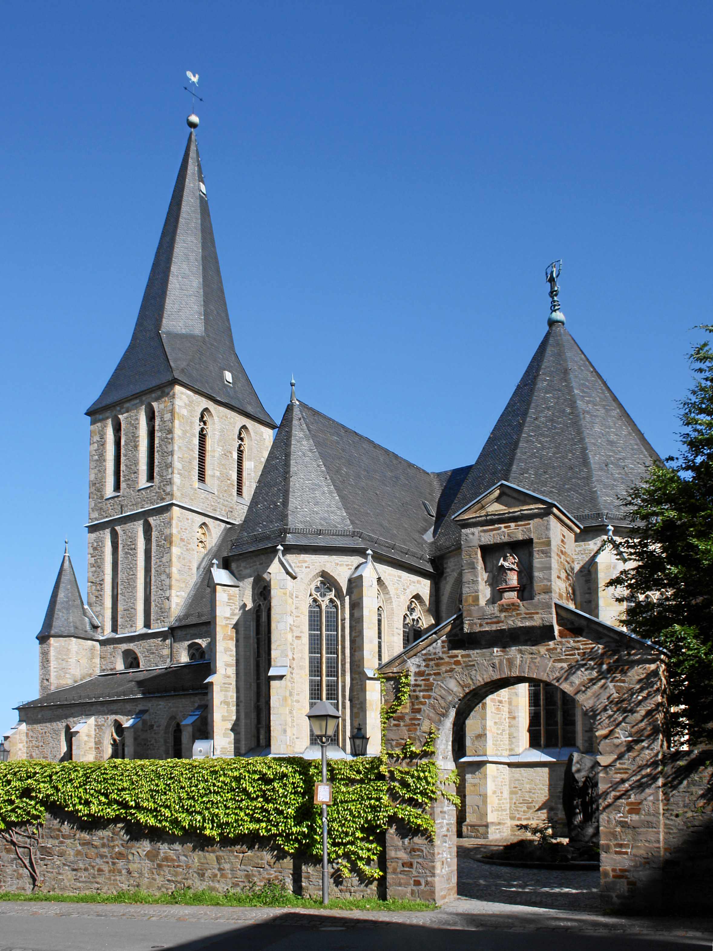 Hennef-Bödingen, Germany. Roman-catholic pilgrimage church Mater dolorosa, exterior from South-East.